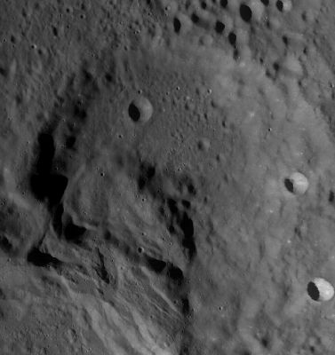 Ley lunar crater -LROC image WAC No. M118838769ME. Calibrated by LROC_WAC_Previewer.